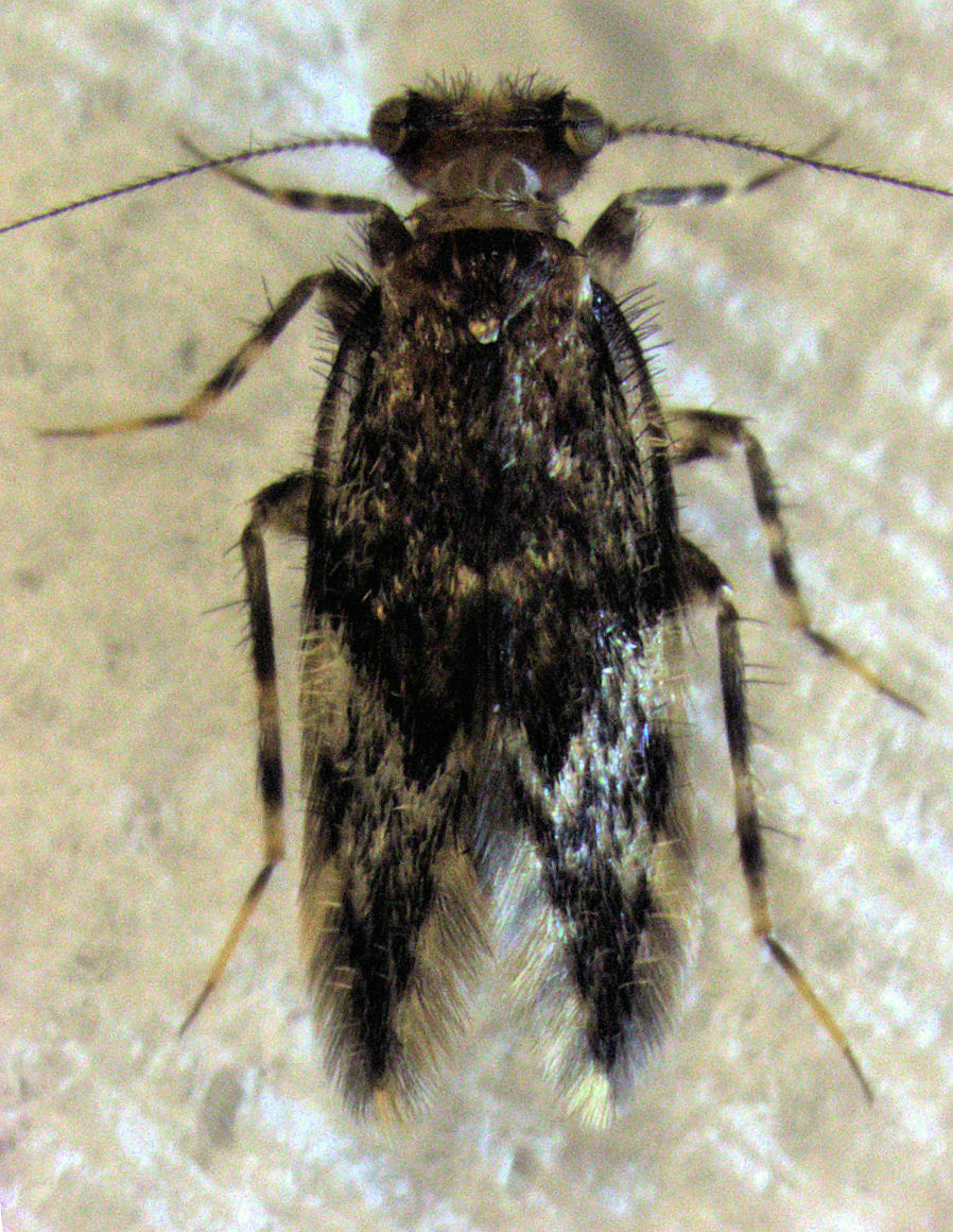 adult Echmepteryx hamiltoni, length about 3.9 mm